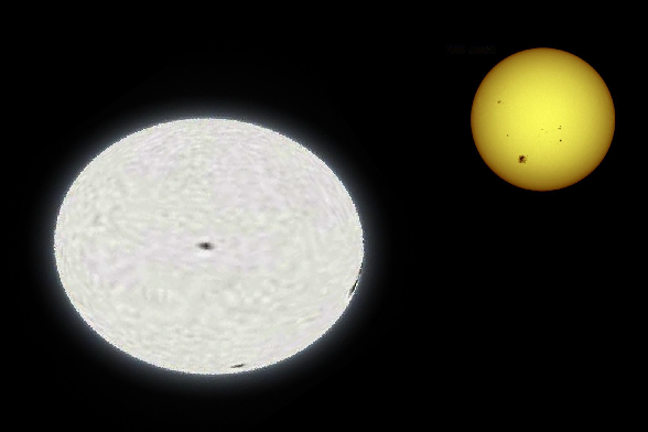 Vega and Sun in scale.